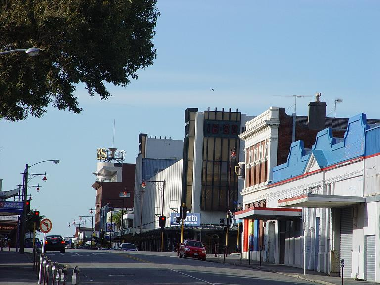 Taken by myself, Jordan Wyatt, from a street near H&J Smiths Limited, in Invercargill